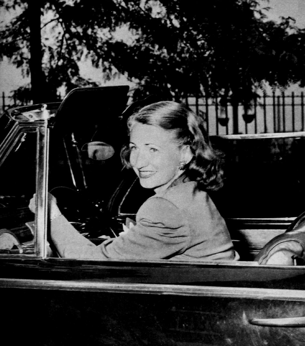 Photo of actress Barbara Weeks as Ann Malone from the radio series Young Dr. Malone. A search for renewal was done in publications for the years 1973 and 1974. There were no listings for Radio Mirror; there's no evidence of current copyright.